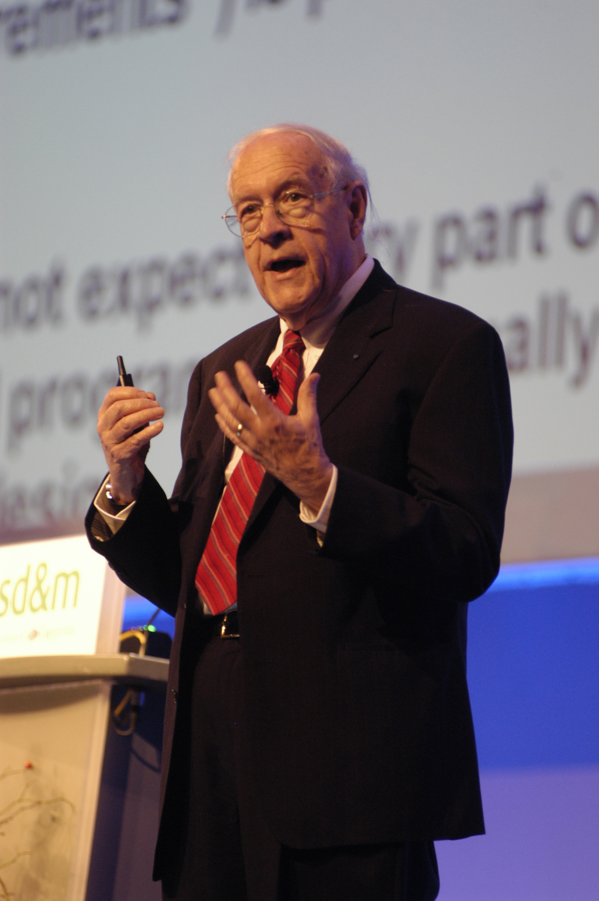 Fred Brooks in Berlin, Germany, November 2007